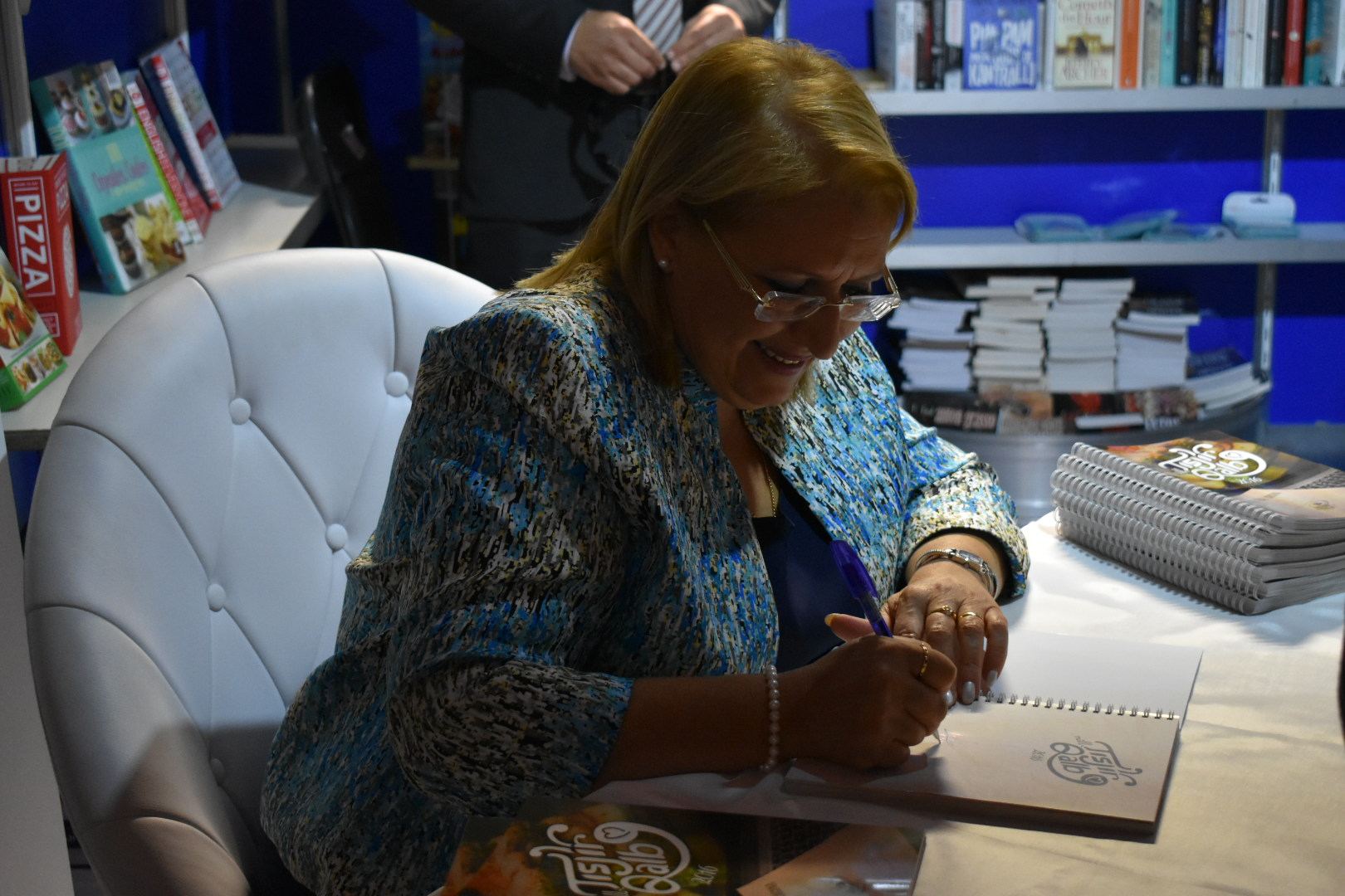 Her Excellency (H.E.) Marie Louise Coleiro Preca, the President of Malta, signing the Malta Community Chest Fund books at the Mediterranean Conference Centre (Valletta)